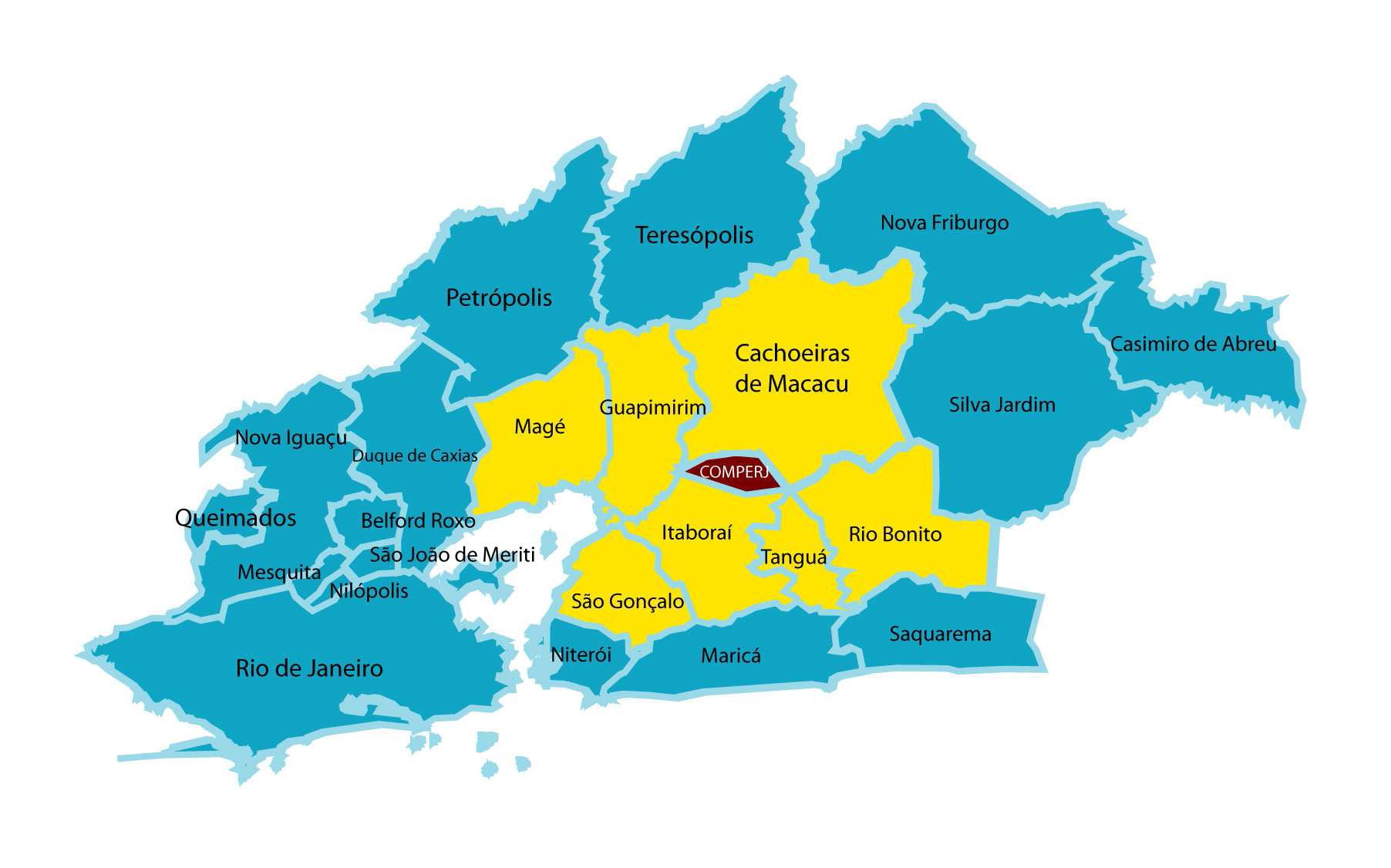 COMPERJ Influence area